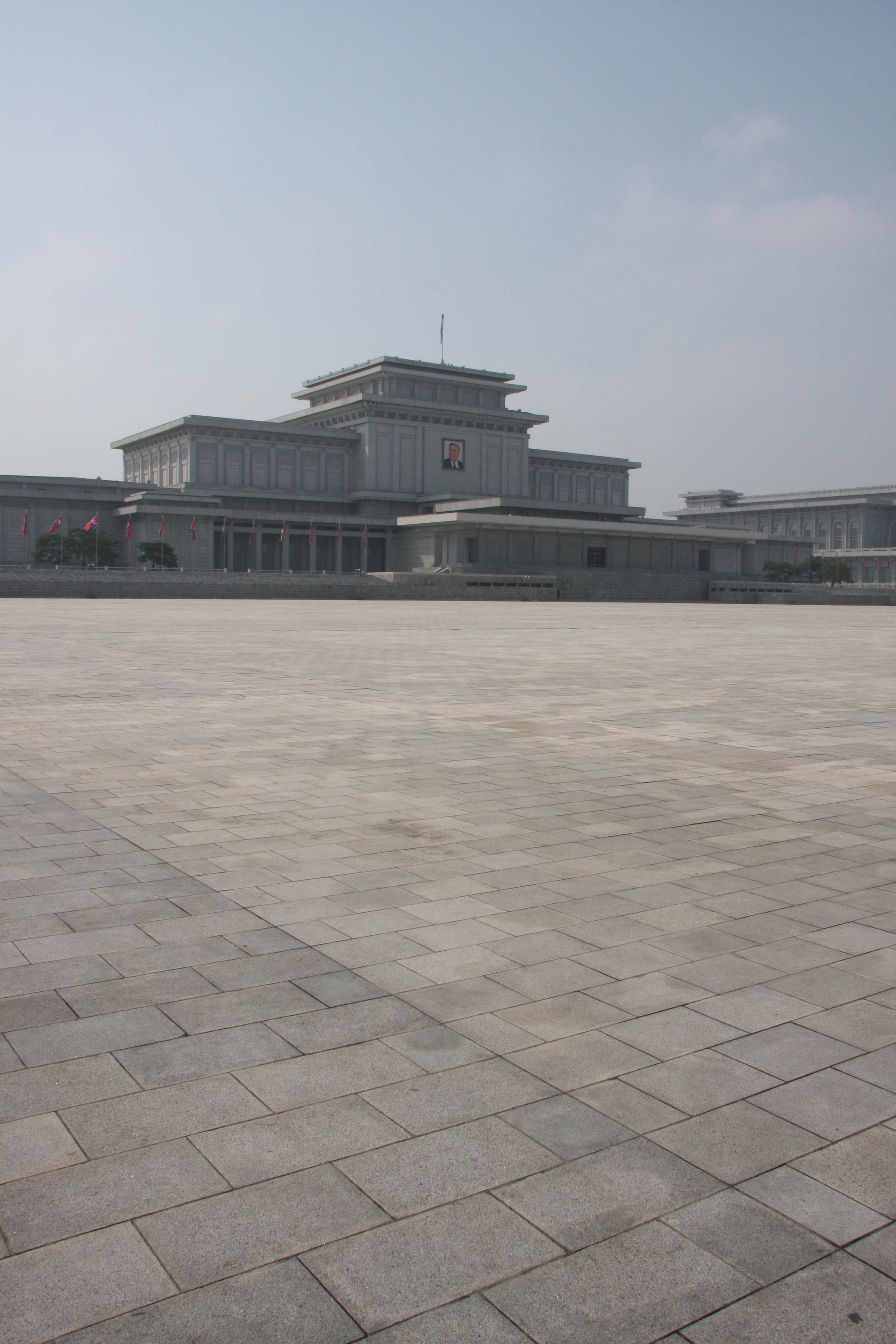 Kumsusan Memorial Palace in Pyongyang.